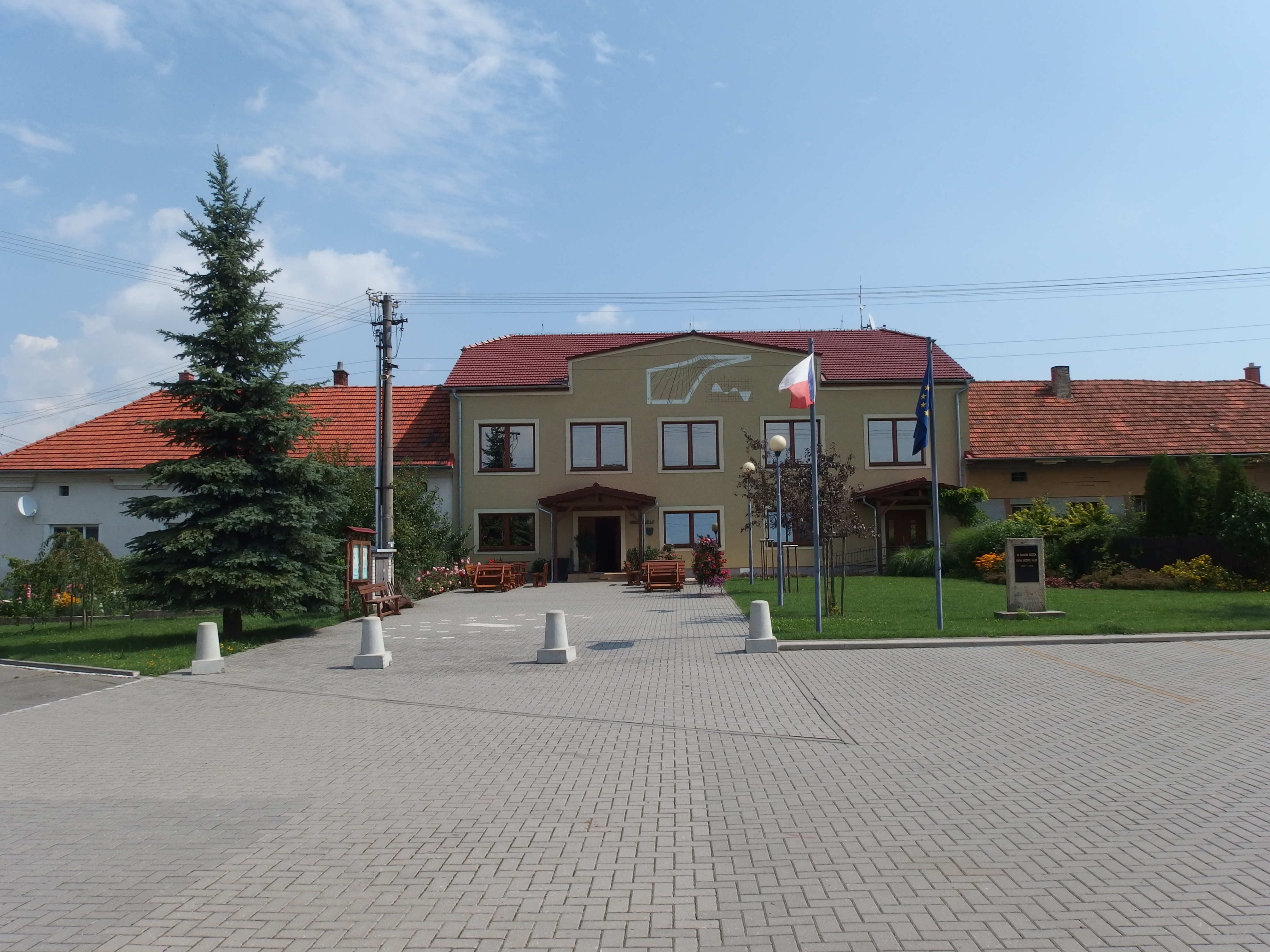 Rouské, Přerov District, Czech Republic.